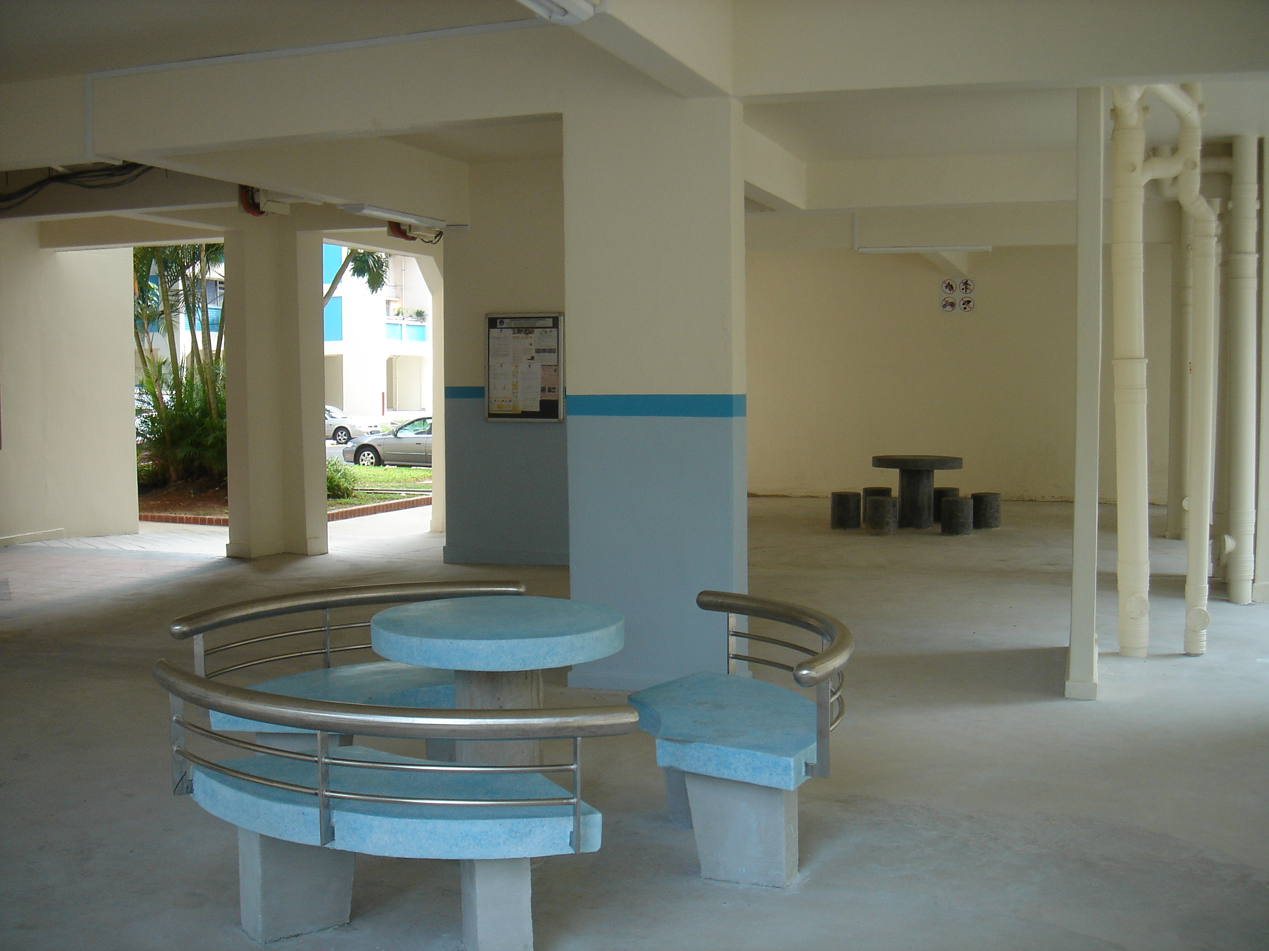 A void deck on the ground floor of a Housing and Development Board flat in Singapore.